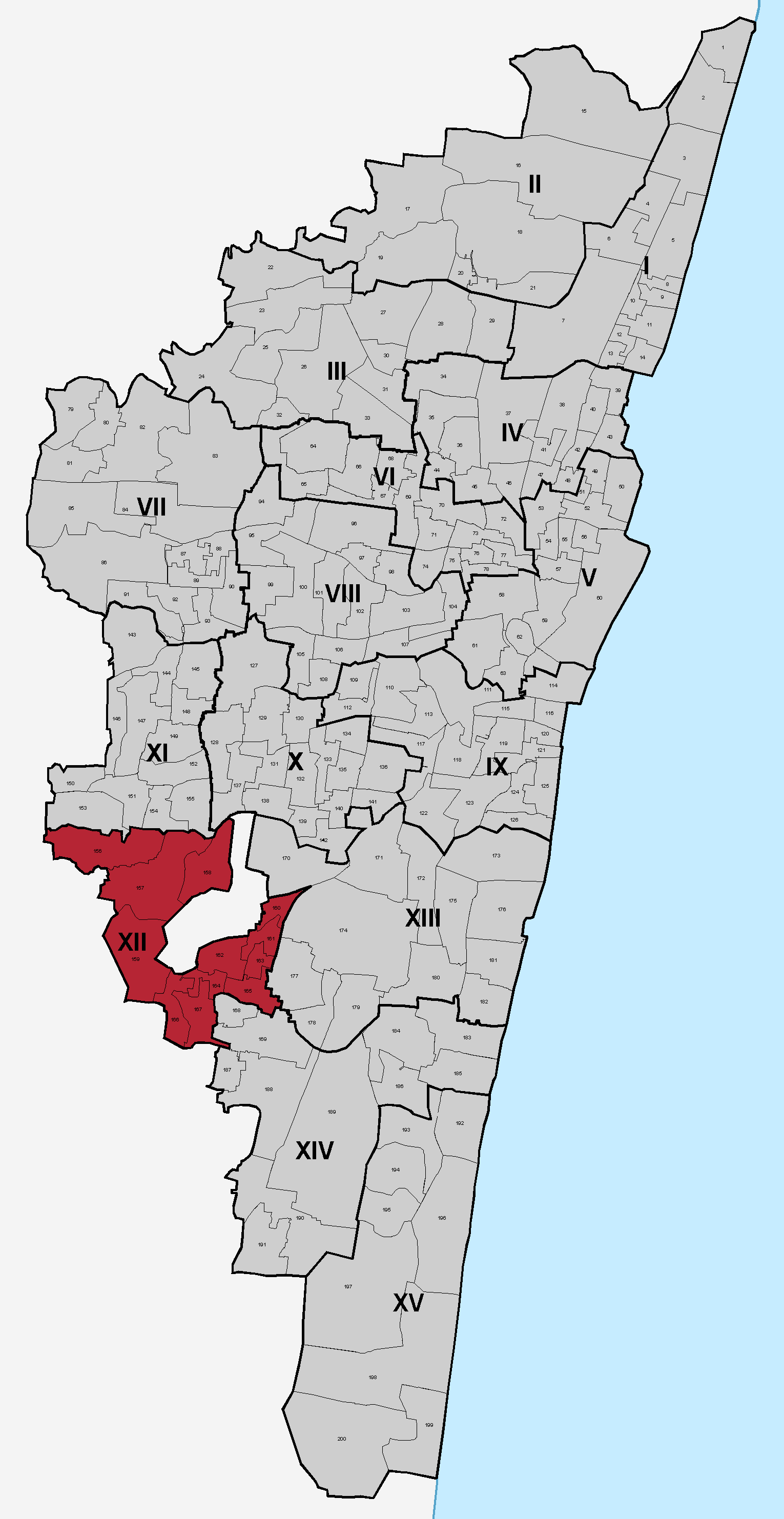 Location of Alandur zone in Chennai